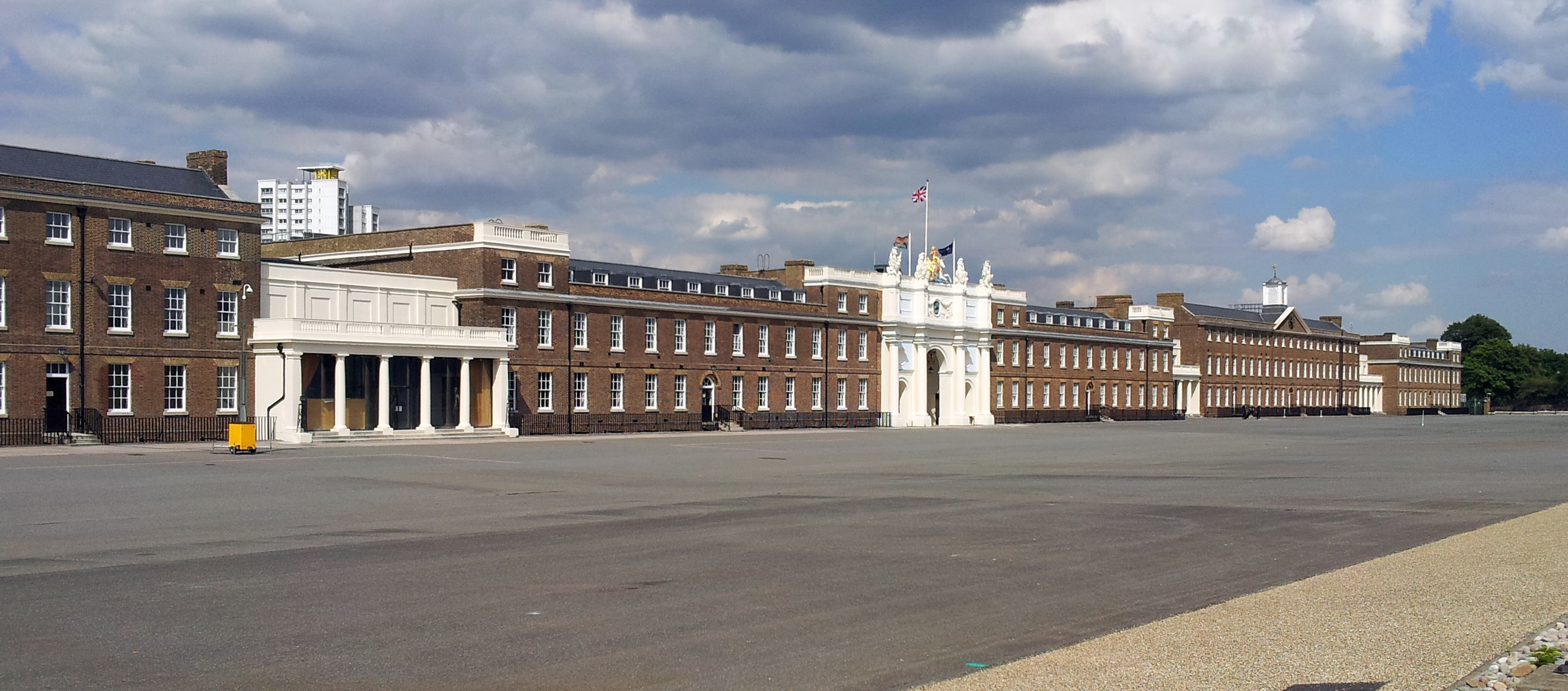 View from the southwest of the Royal Artillery Barracks and the parade ground, Woolwich, Southeast London.